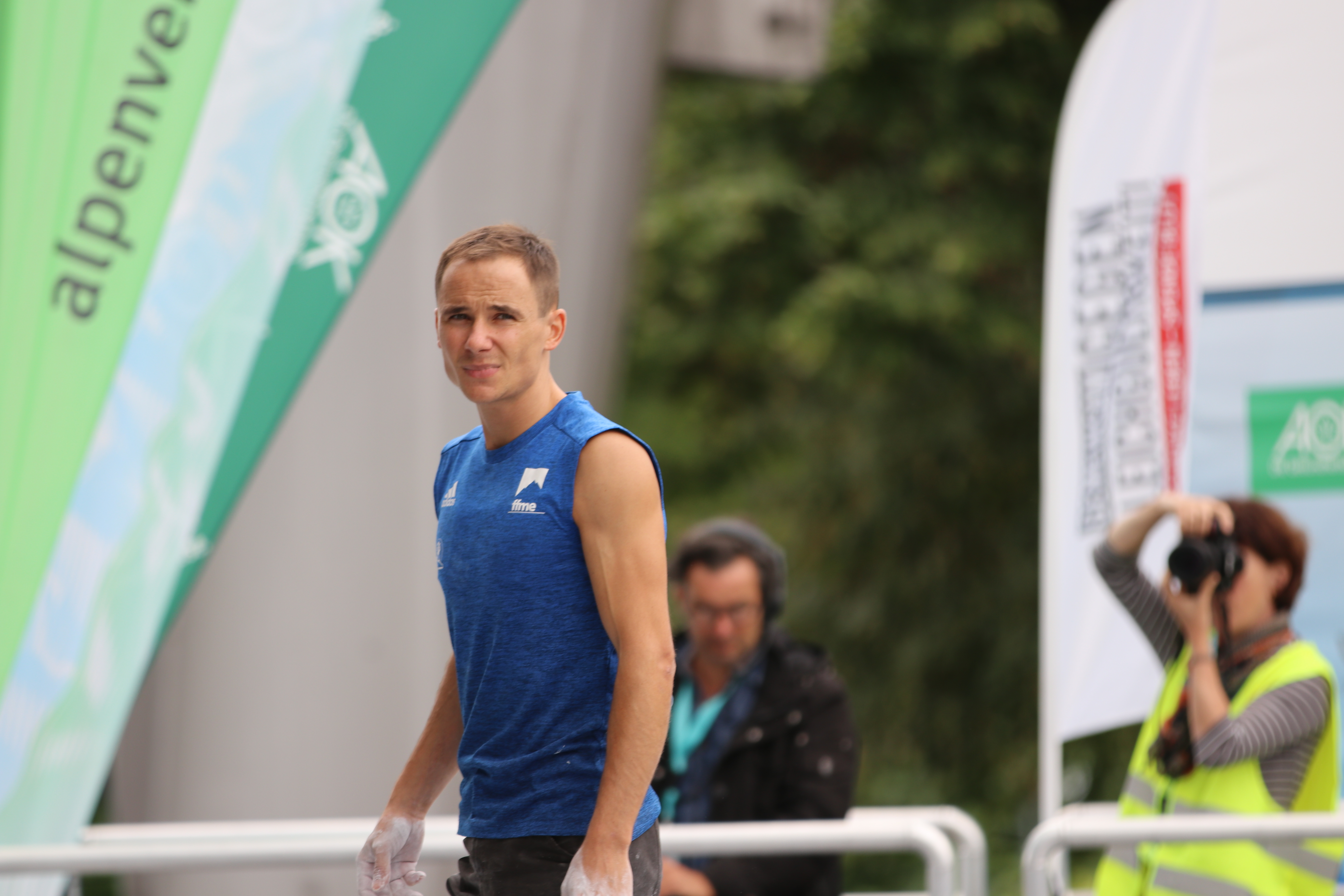 Jeremy Bonder FRA at the Boulder Worldcup 2017 in Munich, Germany.